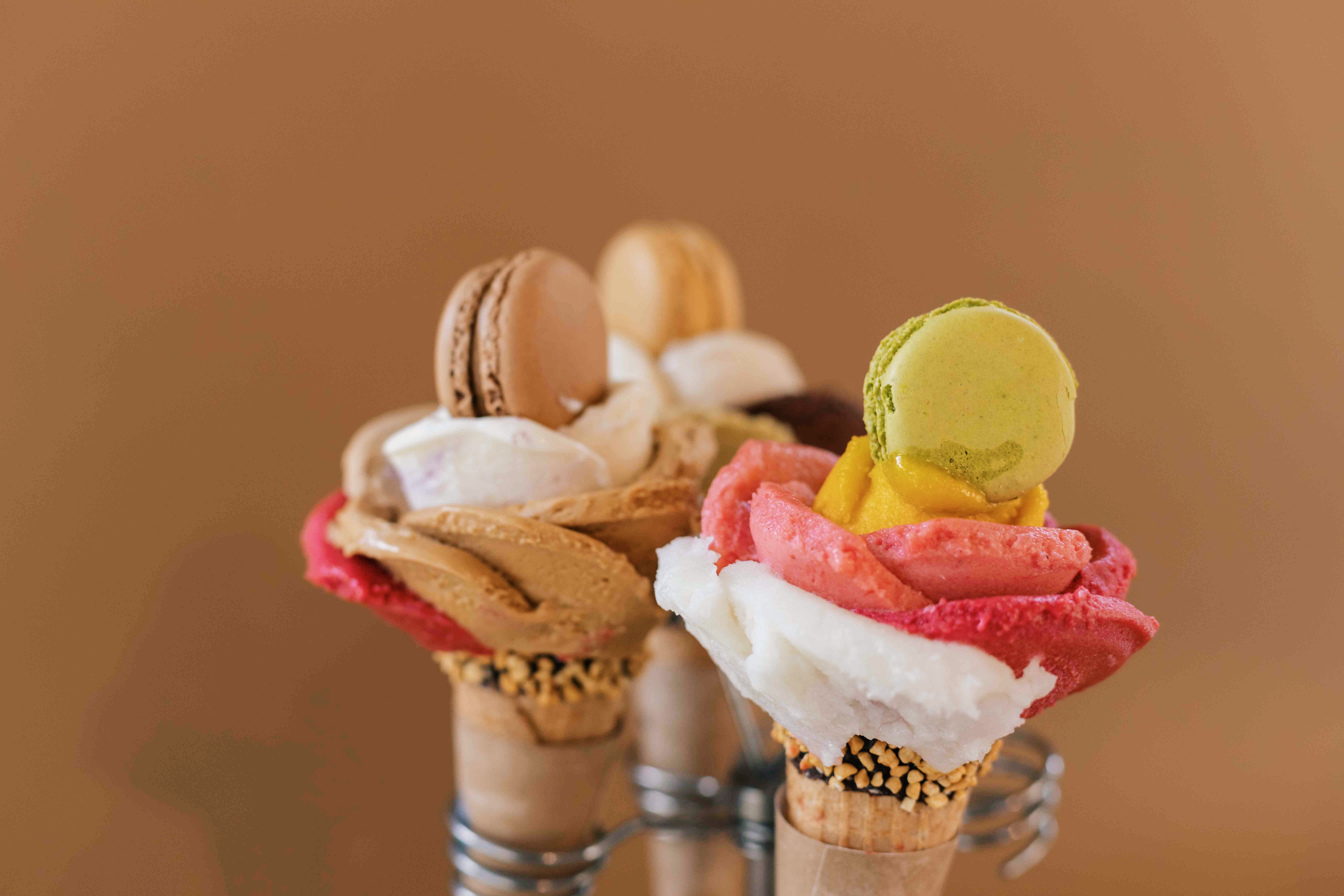 Amorino Gelato Flowers and Macaroons